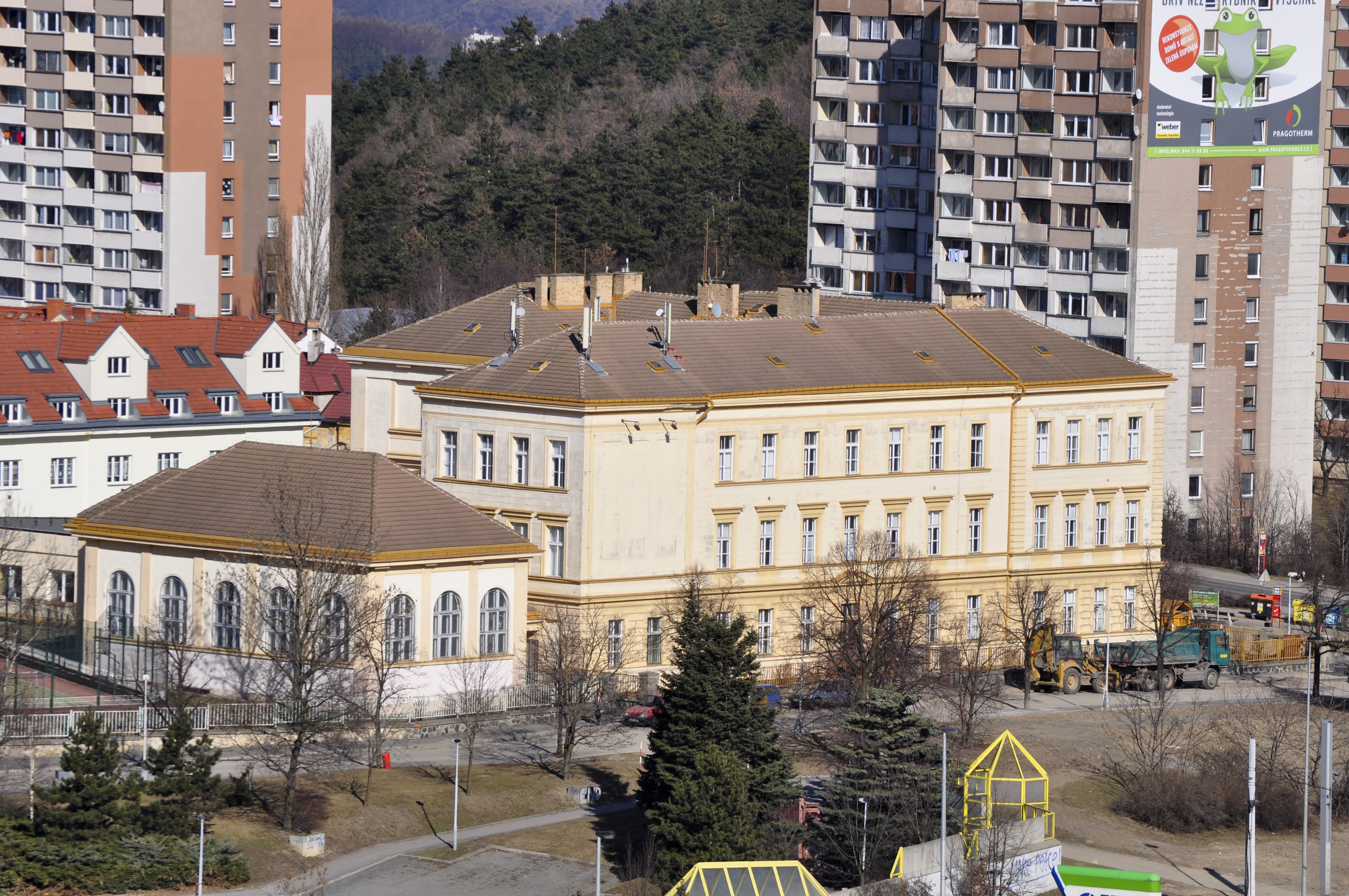 Primary Practical School Vokovice